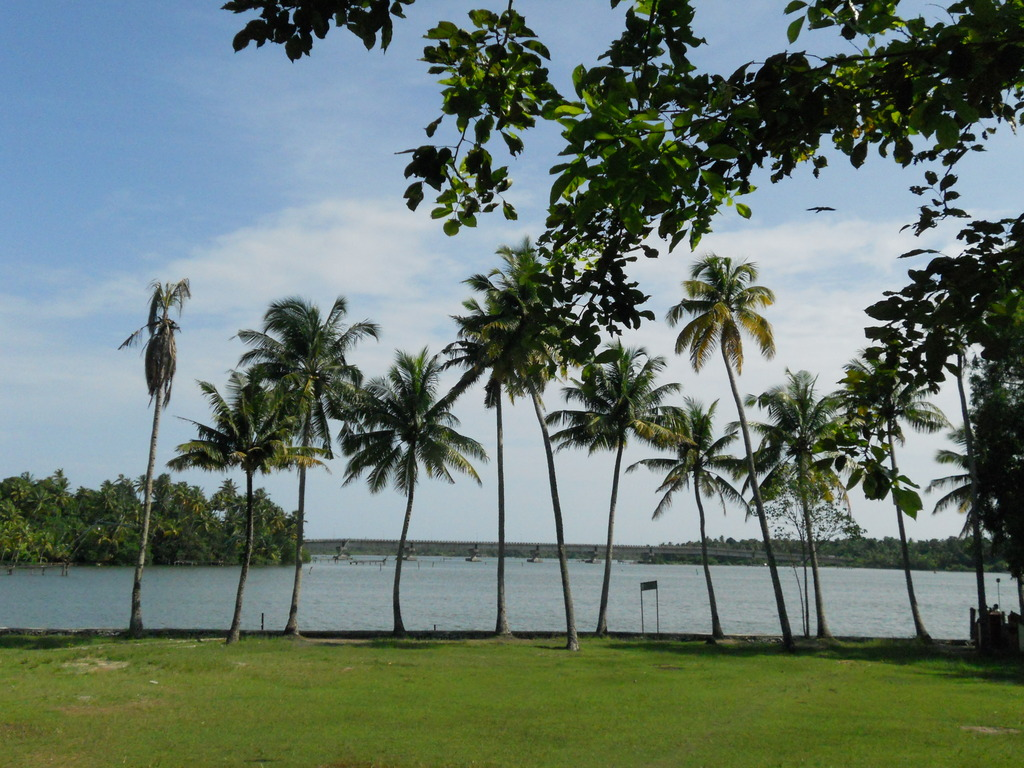 Kerala backwaters, View from Guhanandapuram temple,Chavara,Kollam